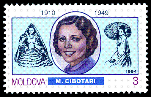 Stamp of Moldova